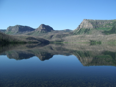 Trappers Lake in the Flat Tops Wilderness in Colorado